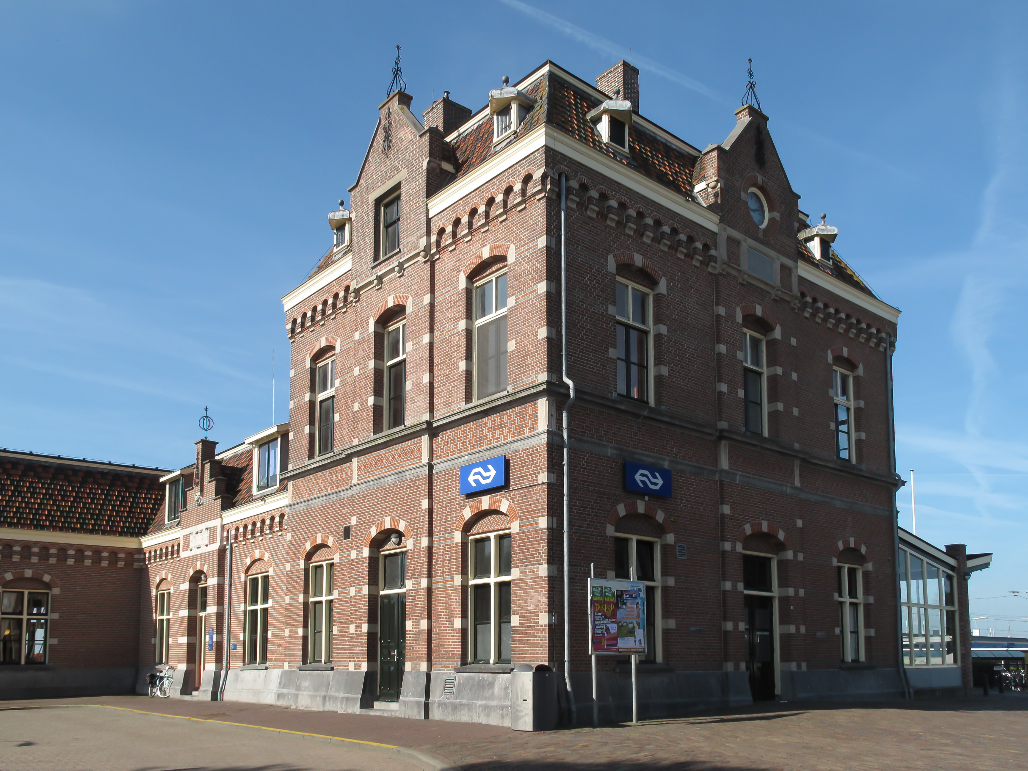 Enkhuizen, station